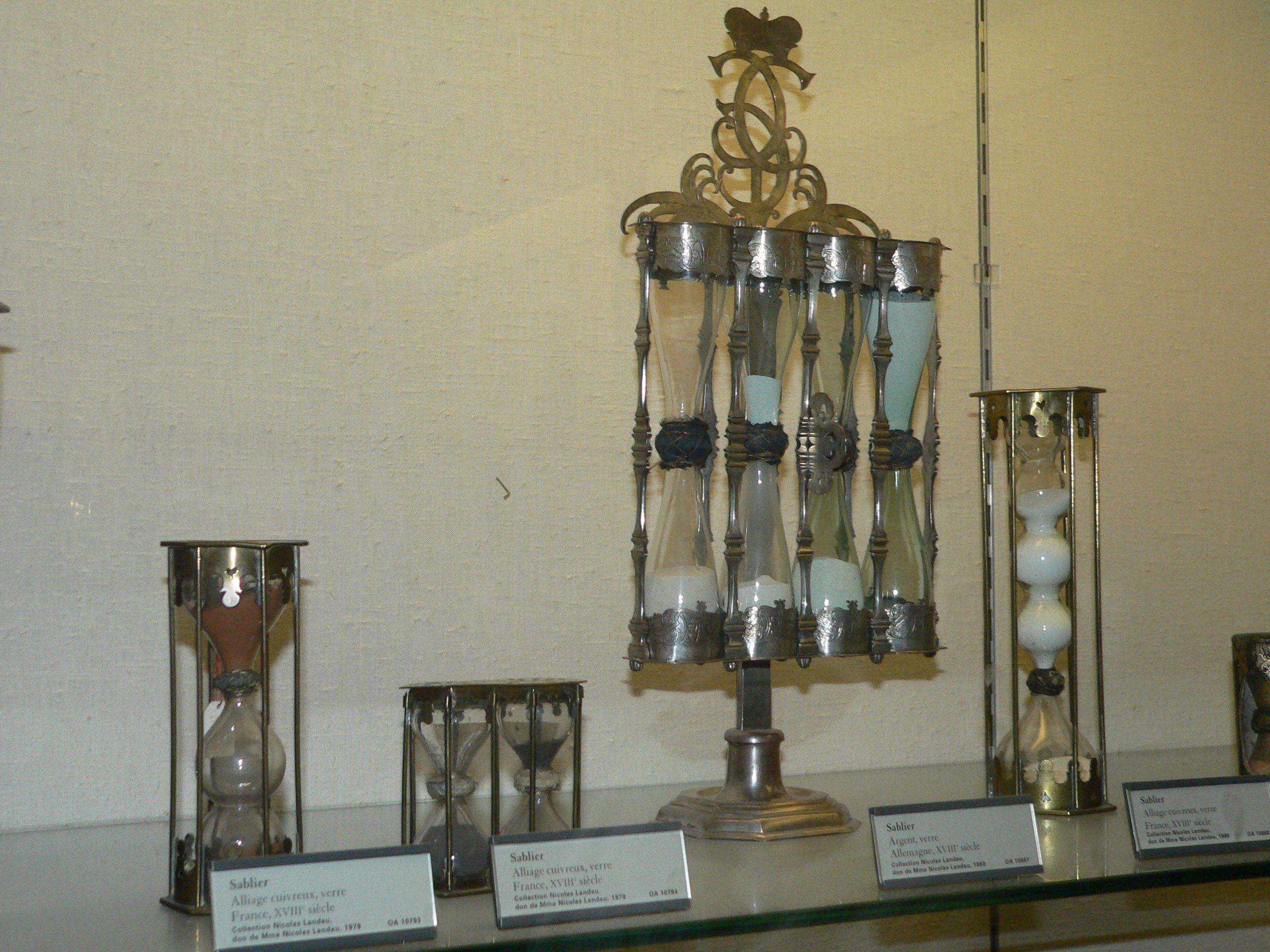 Egyptian antiquities of the Louvre (the category is temporary and serves for work upon the whole set of images)